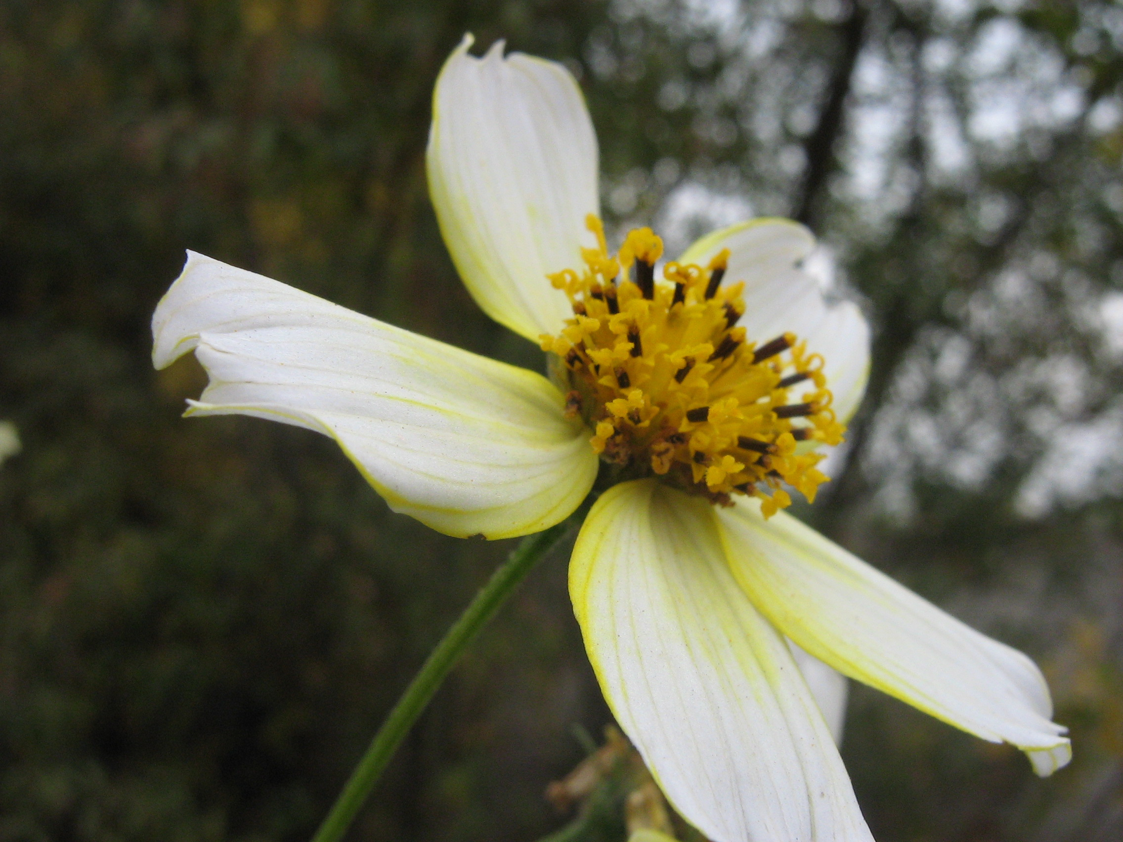 Bidens aurea, a weed